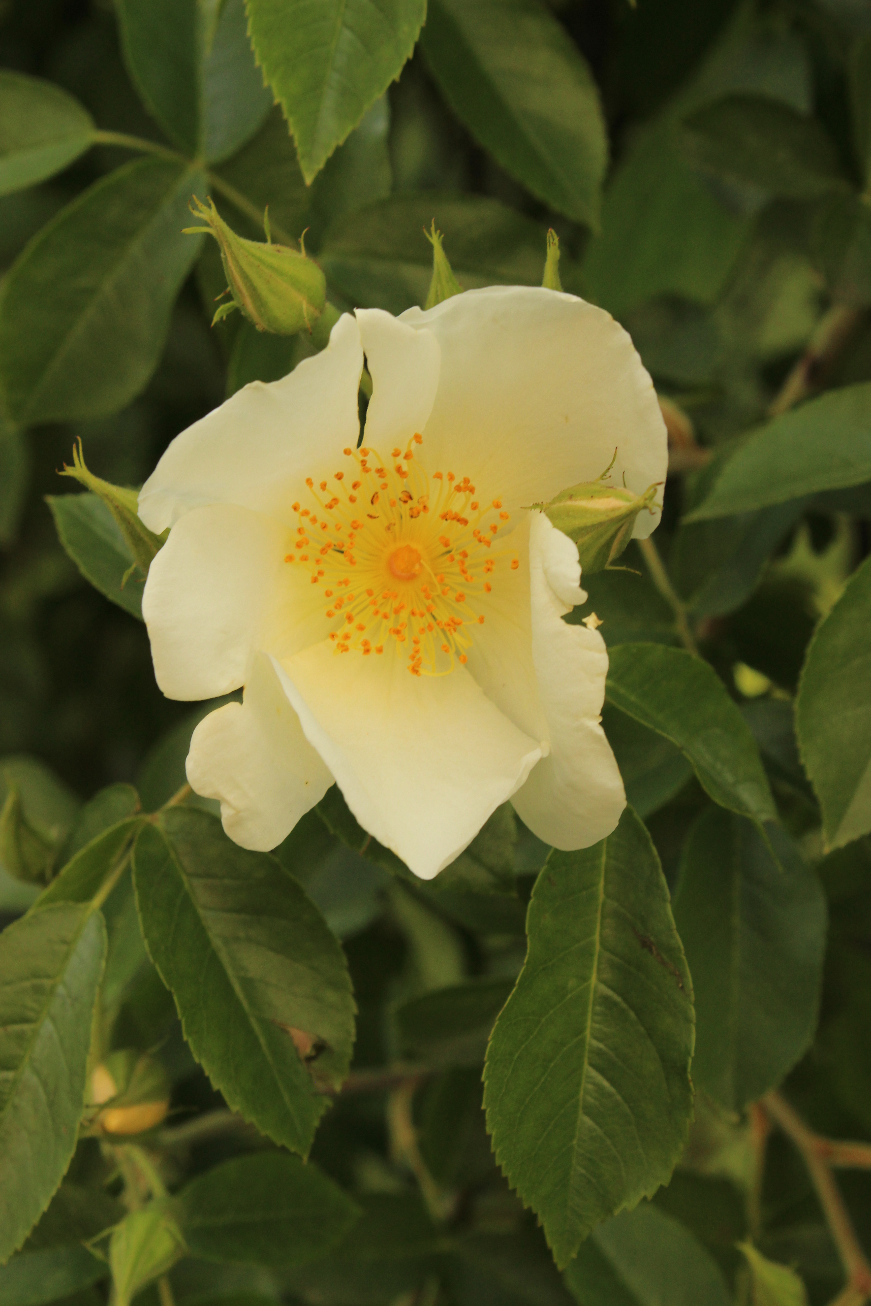 Rosa moschata in the Botanical Garden of the University of Vienna. Identified by sign.